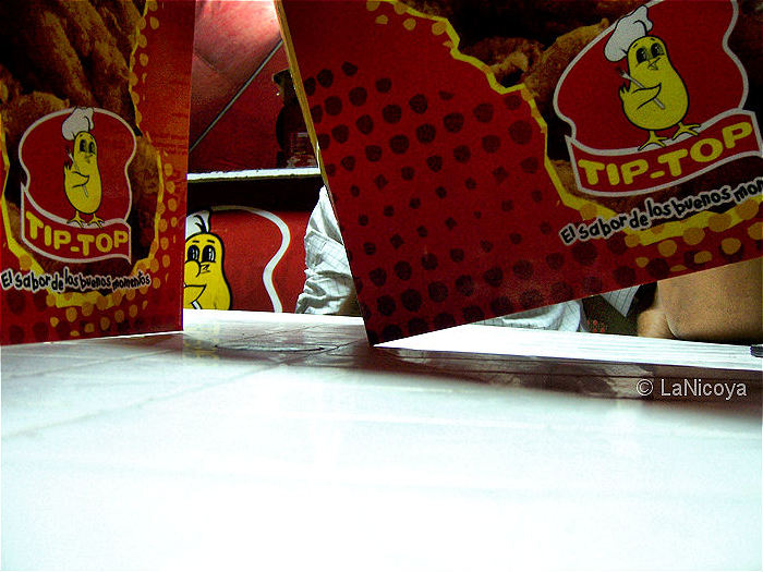 Tip-top restaurant in Managua